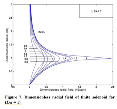 Dimensionless radial field of a finite solenoid. A description of this plot can be found in: E. E. Callaghan, S. H. Maslen (1960-10-01). "The Magnetic Field of a Finite Solenoid". NASA Technical Reports NASA-TN-D-465: p. 16.